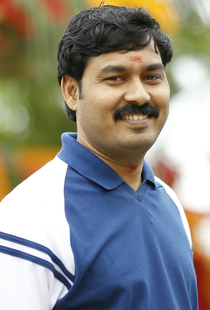 Movie director form Kerala state and working in Thamil film industry